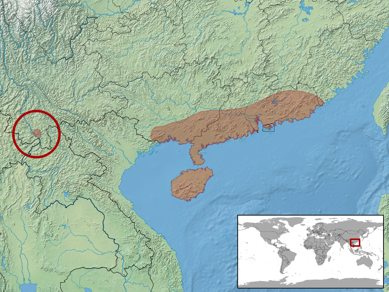 geographic distribution of Gekko chinensis (Native: China (Fujian, Guangdong, Guangxi, Yunnan); Hong Kong)